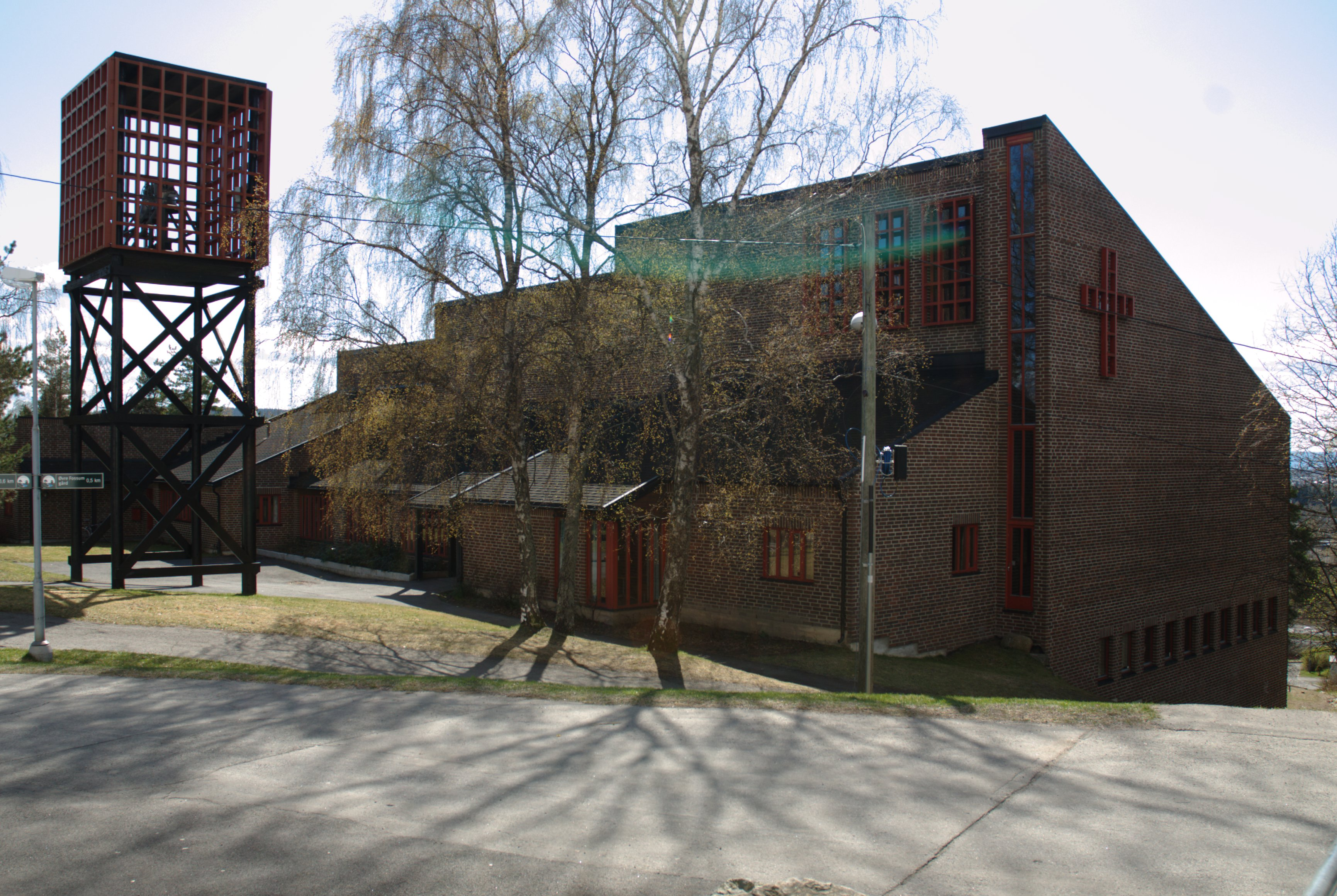 Stovner kirke (church) in Oslo by architect Harald Hille, 1979.